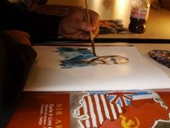 Sir Arthur Benton, charactere from french comic book by Tarek & Pompetti